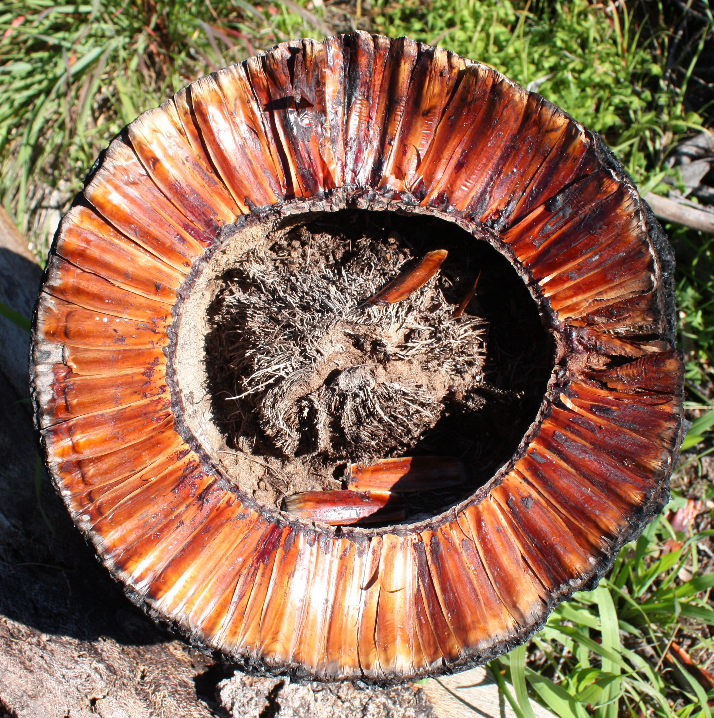 This is a cross-section of a broken Xanthorrhoea stem that is an advanced stage of decomposition. The outer ring shows old leaf bases connected to a woody outer layer of the stem which resists decomposition longer than the fibrous centre, which contains numerous vascular bundles in parenchyma. A photograph of a healthy stem would show the distinct secondary thickening characteristic of these advanced monocots. Photo taken at Wireless Hill Park, Perth, Western Australia.